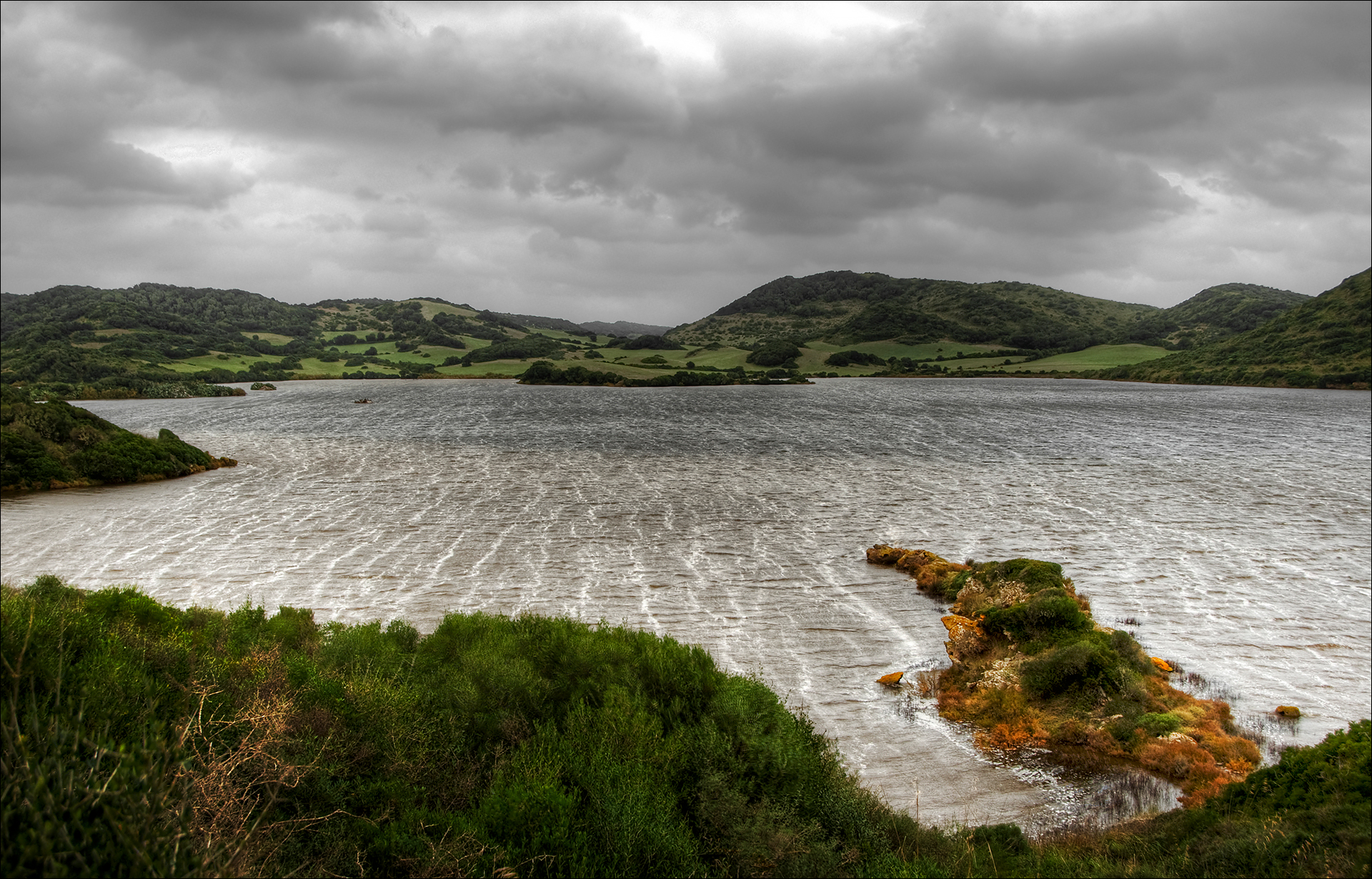 Minorca, Balearic Islands: Natural Reserve of Albufera des Grau. This place has not changed since I took this picture.